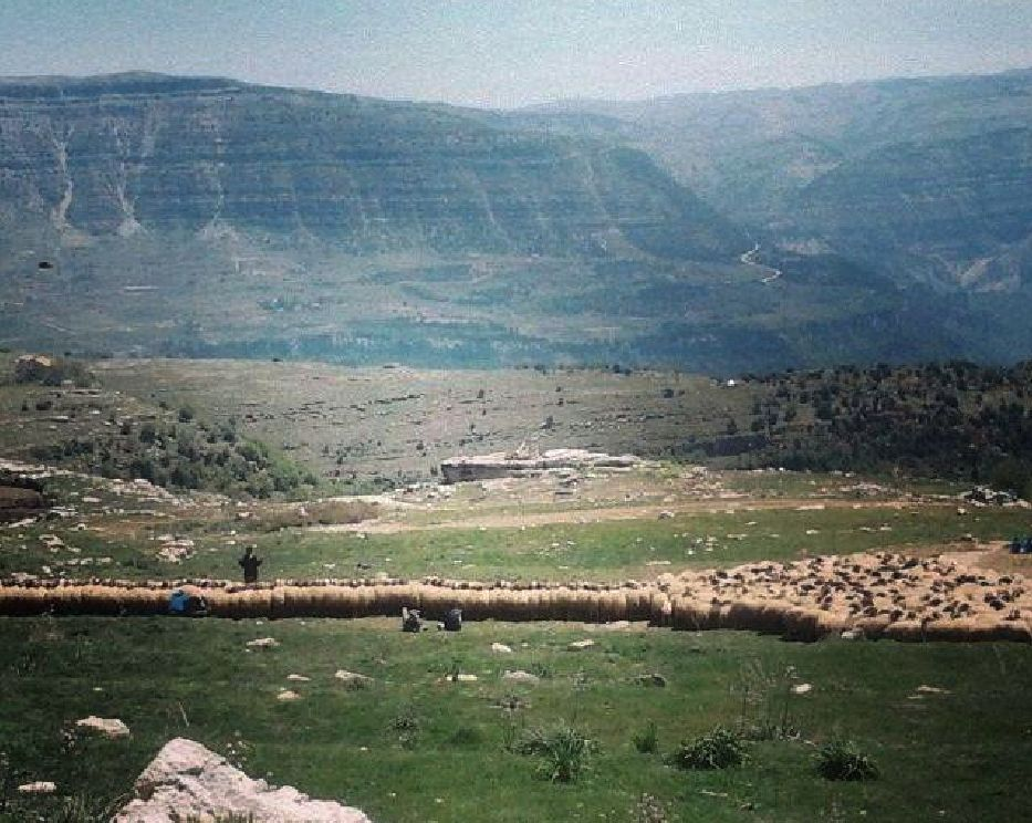 3ARID EL MGHAYRI SORGHOL